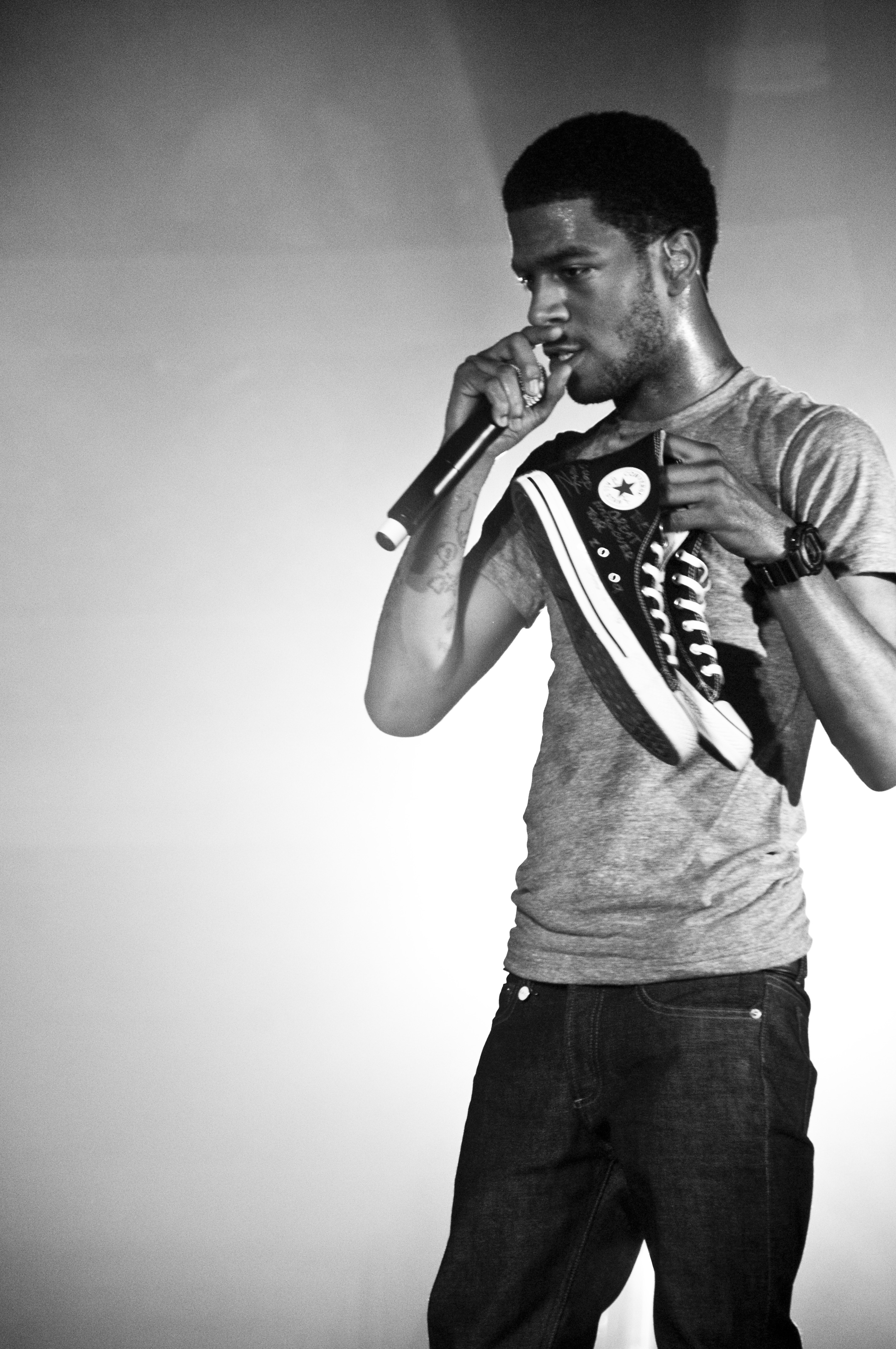 Kid Cudi performing at The Regency Center Grand Ballroom in San Francisco, July 2009